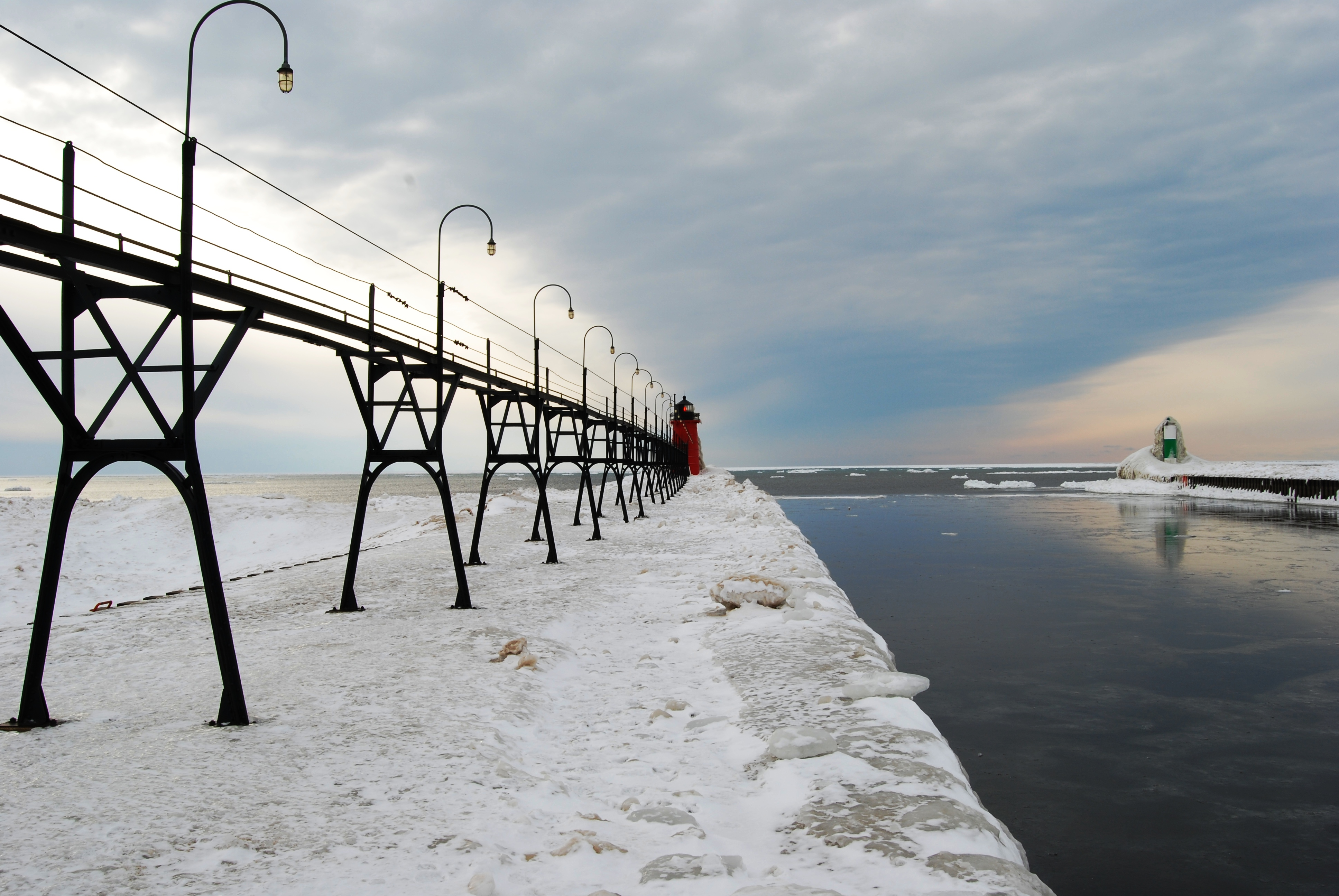 South Haven Light, south pierhead on left, north pierhead on right, Black River.